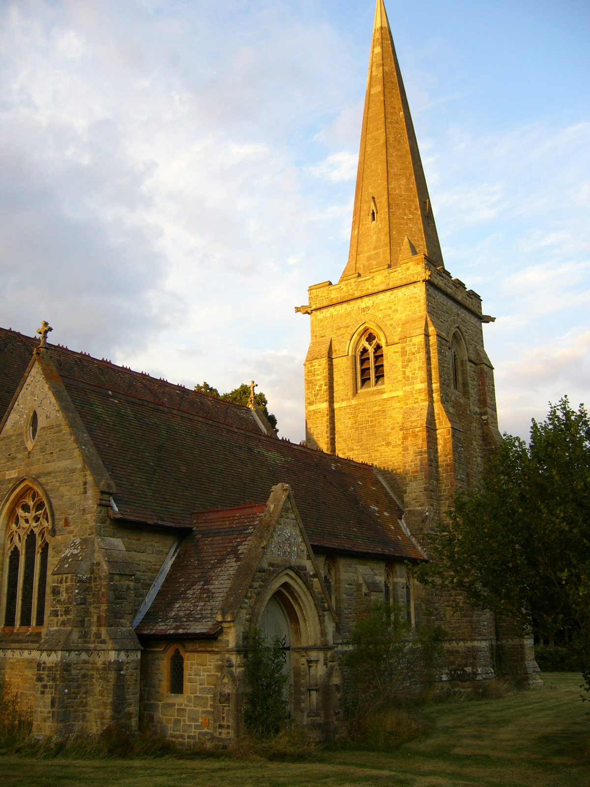 St Stephen's church, Hammerwood, East Sussex, seen from west-southwest